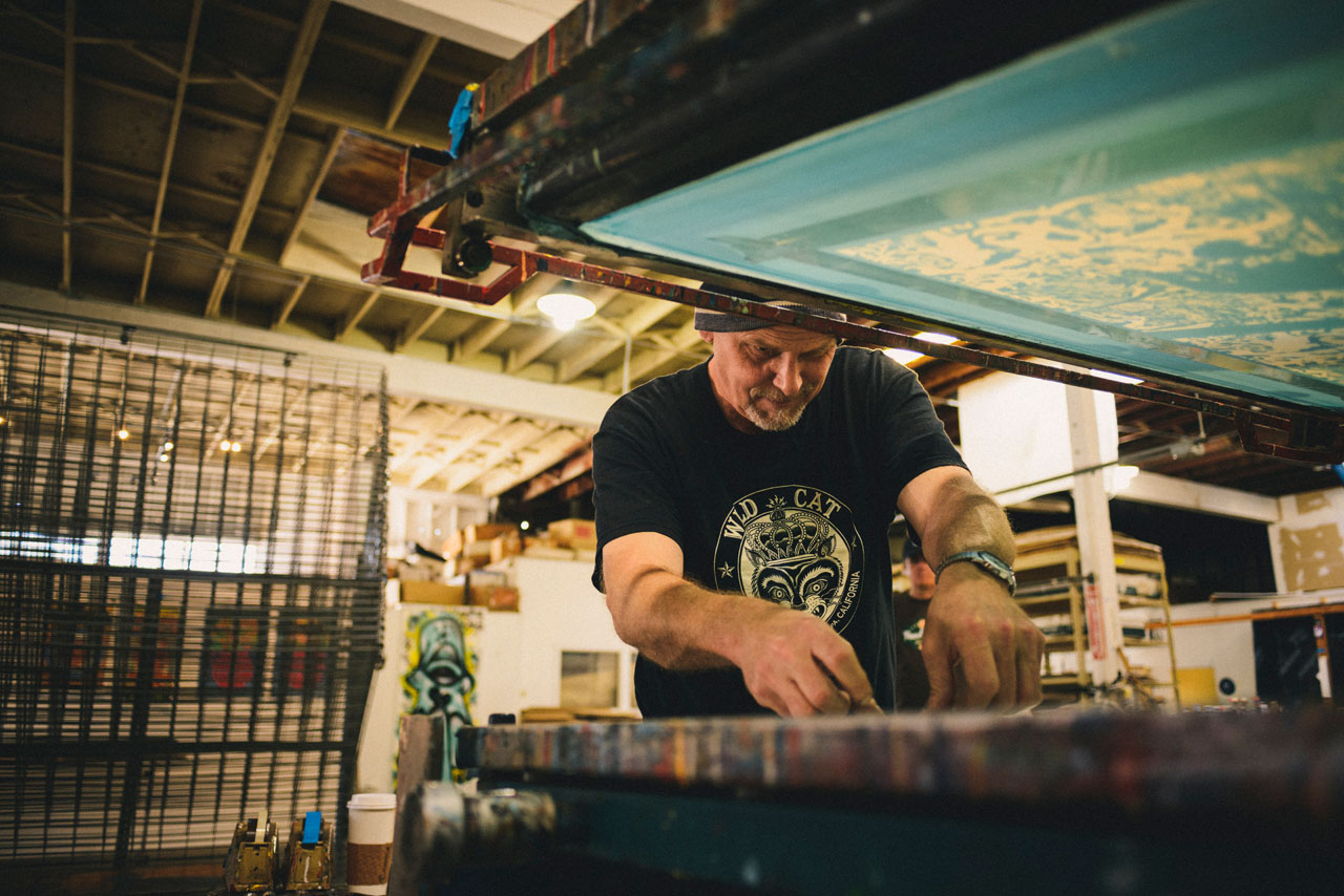 Chuck Sperry printing in his studio. Oakland, CA. November, 2014.